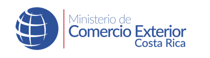 logo Ministerio de Comercio Exterior